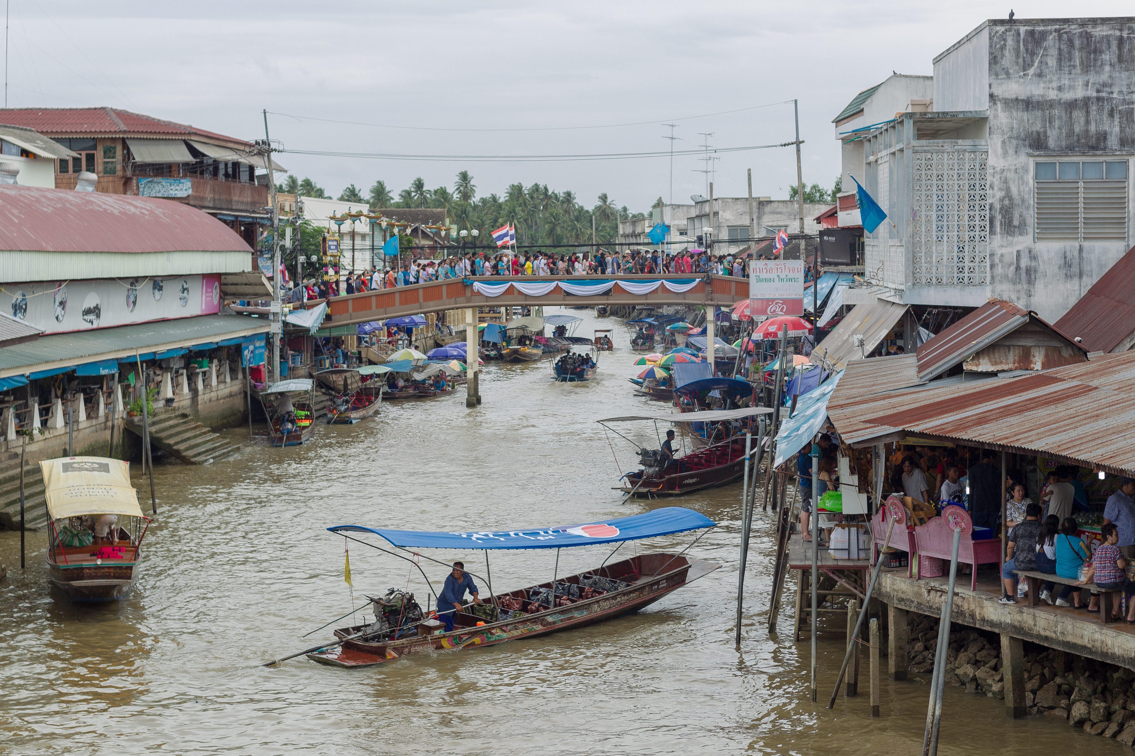 Amphawa Floating Market located at Samut Songkhram, Thailand.